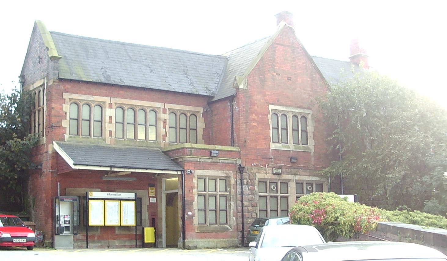 Newton-le-Willows Railway station, photograph taken by 81.178.196.223 on 9 Oct 2004